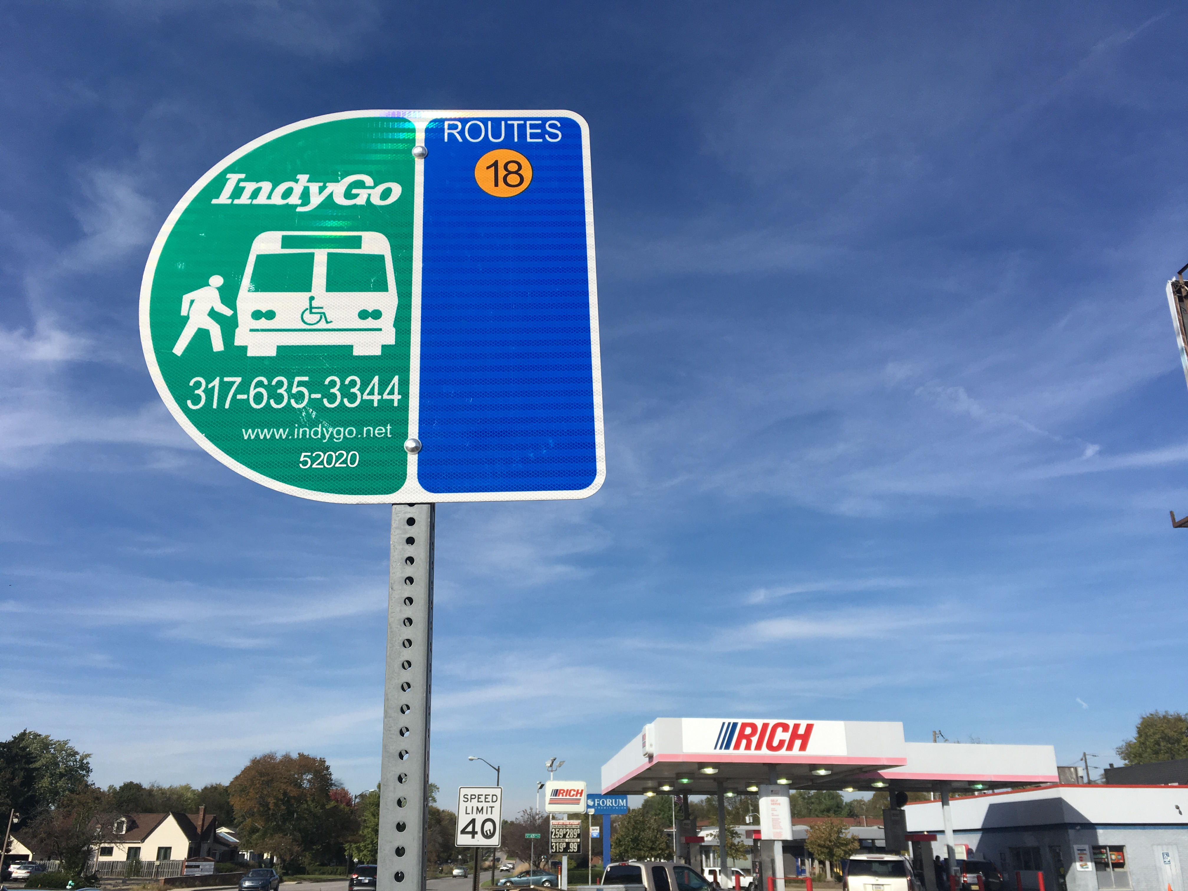 This photo depicts an IndyGo bus stop sign for the Route 18 in Broad Ripple, Indianapolis, Indiana, USA in October 2017.